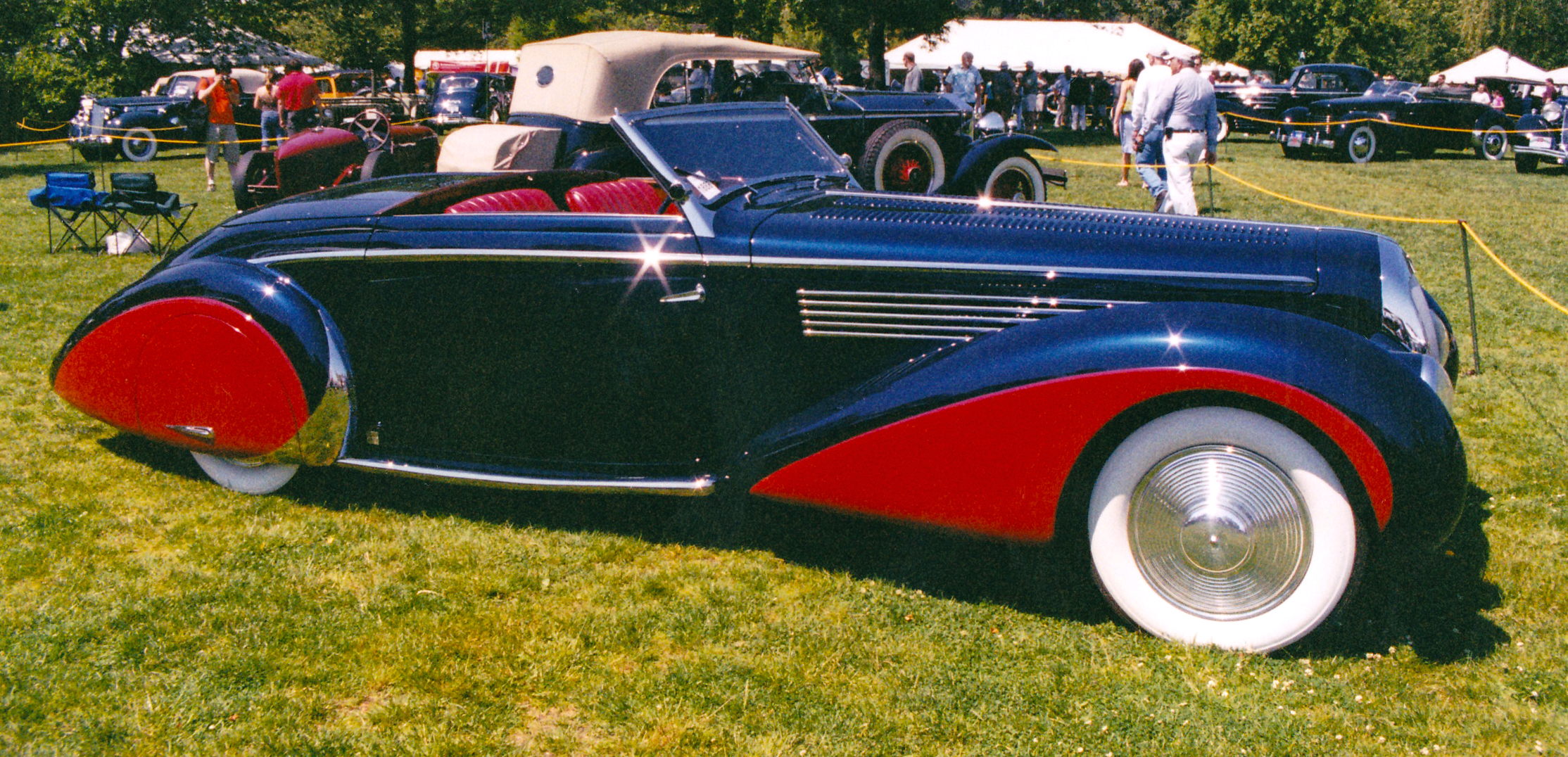 A 1939 Delage D8-120 Grand Luxe Cabriolet at the 2002 Greenwich Concours d'Elegance. Chassis 51980 (with matching engine) was rebodied with this teardrop convertible bodywork by Chapron in 1946.